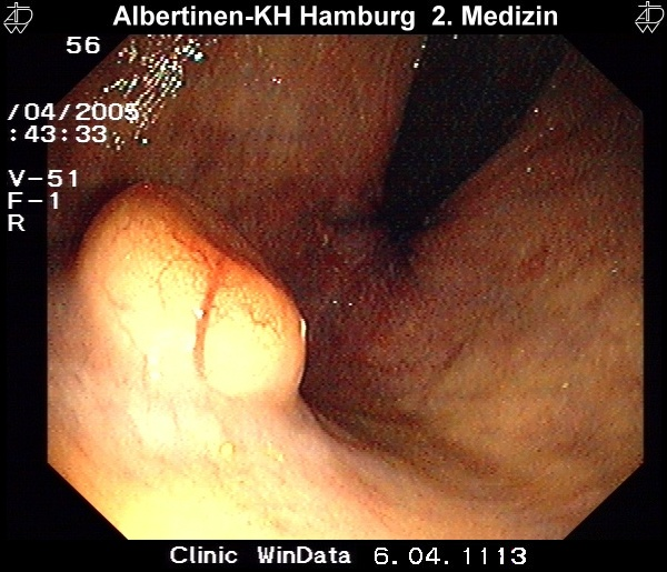 Endoscopic image of piles of 1st degree.